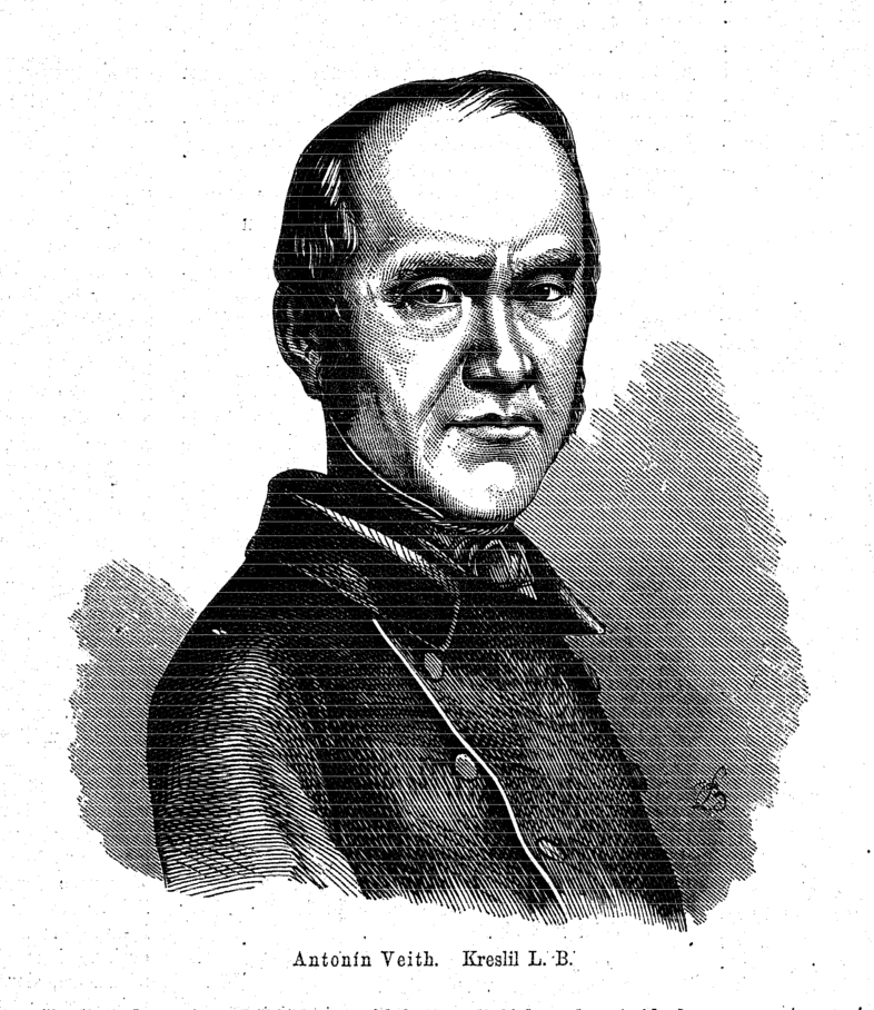 Portrait of Antonín Veith (1793-1853), Czech entrepreneur and philanthropist.